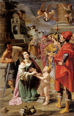 Martyrdom of St. Dorothy, huile sur toile, de Antonio Maria Fabrizi.